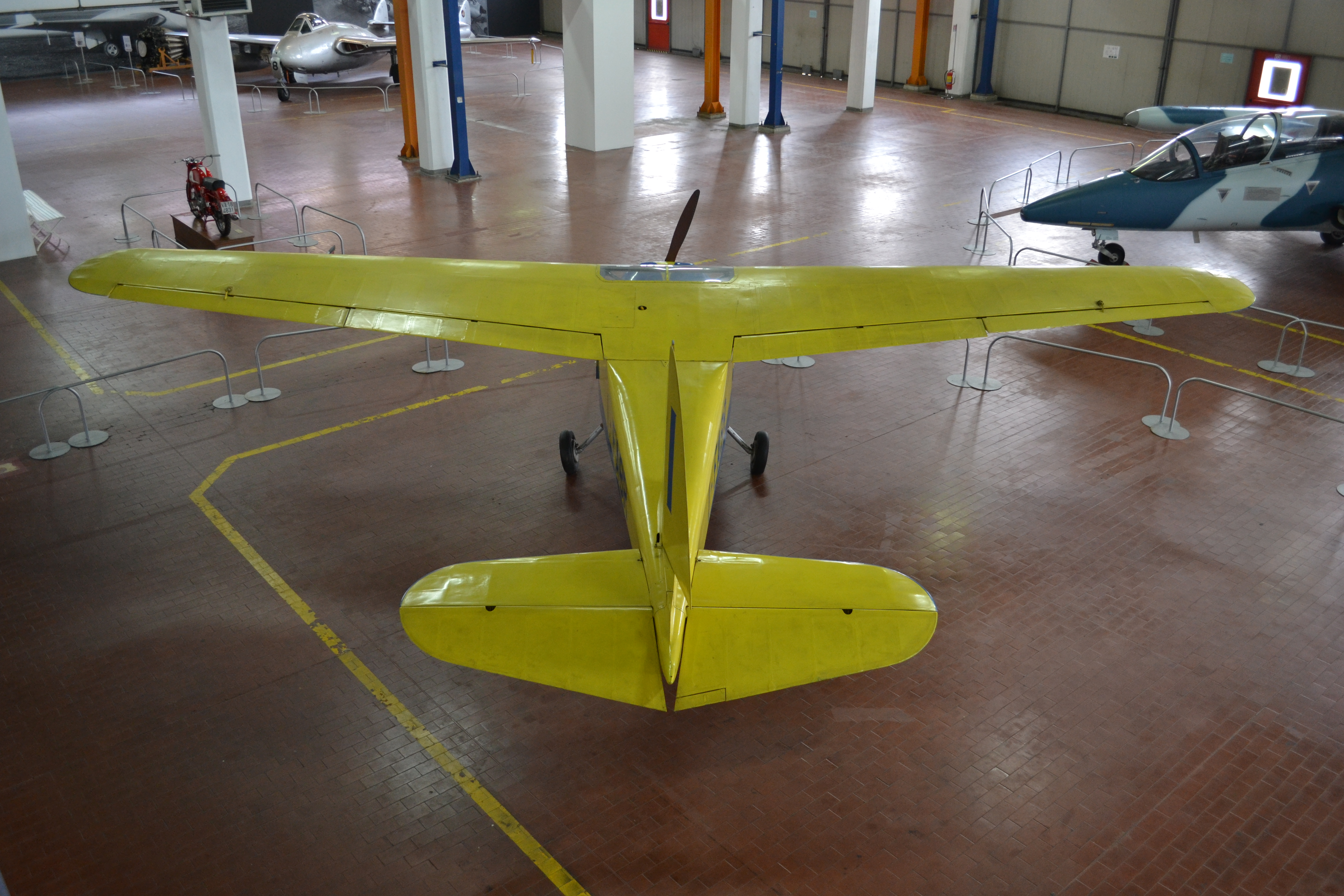 A Macchi M.B.308 (I-FABR) at the Volandia aviation museum, Varese, Italy.